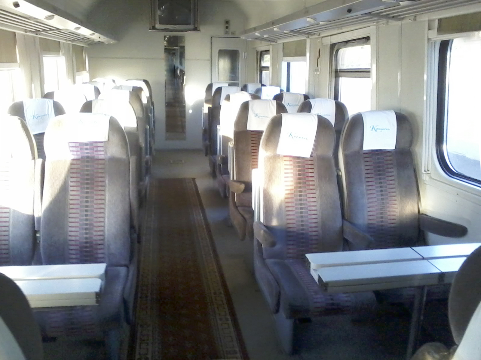 The interior of the carriage 61-779D. Produced at «Kryukovsky railway car building works»